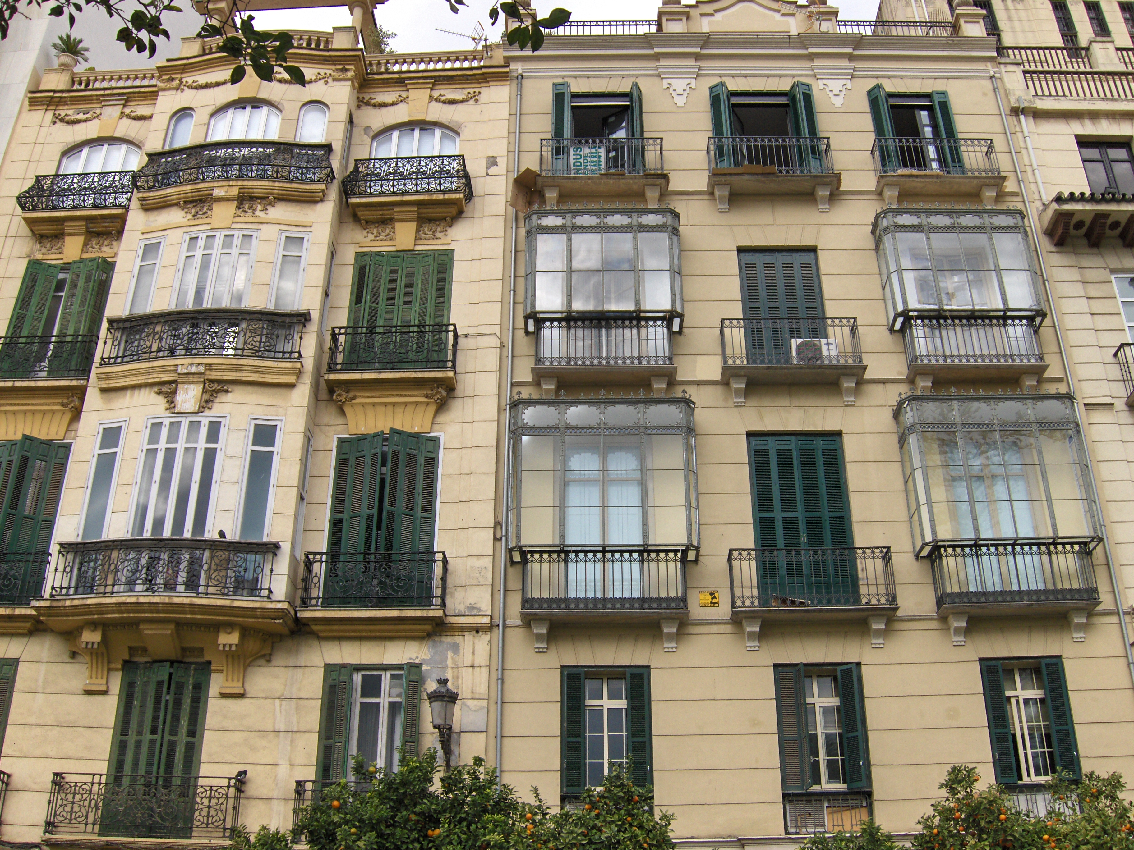 Early 20th century facades in Cortina del Muelle, Málaga.